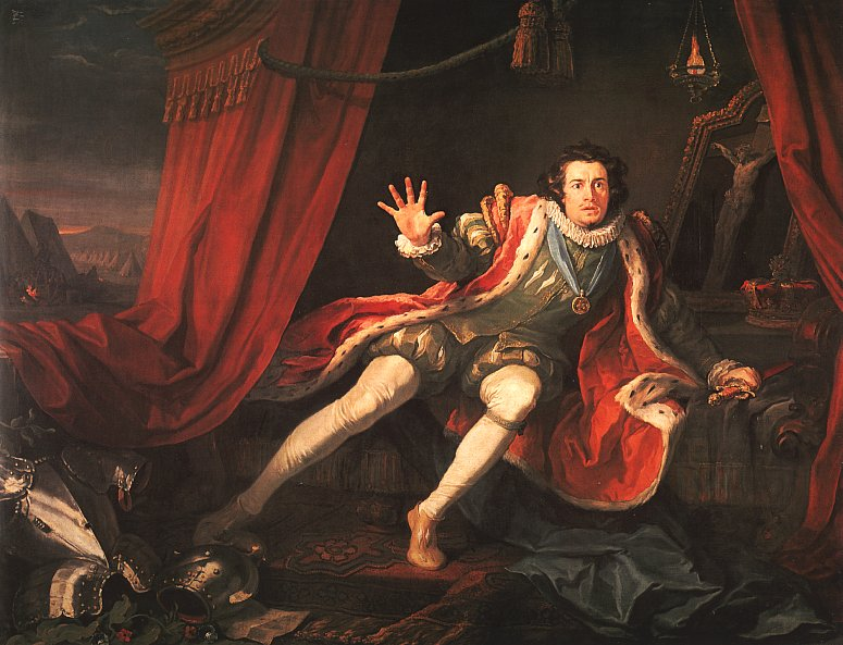 English actor David Garrick in 1745 in the titular role in Act V, Scene 3 of Shakespeare's Richard III. This scene takes place just before the battle of Bosworth Field, Richard's sleep having been haunted by the ghosts of those he has murdered, wakes to the realization that he is alone in the world and death is imminent.